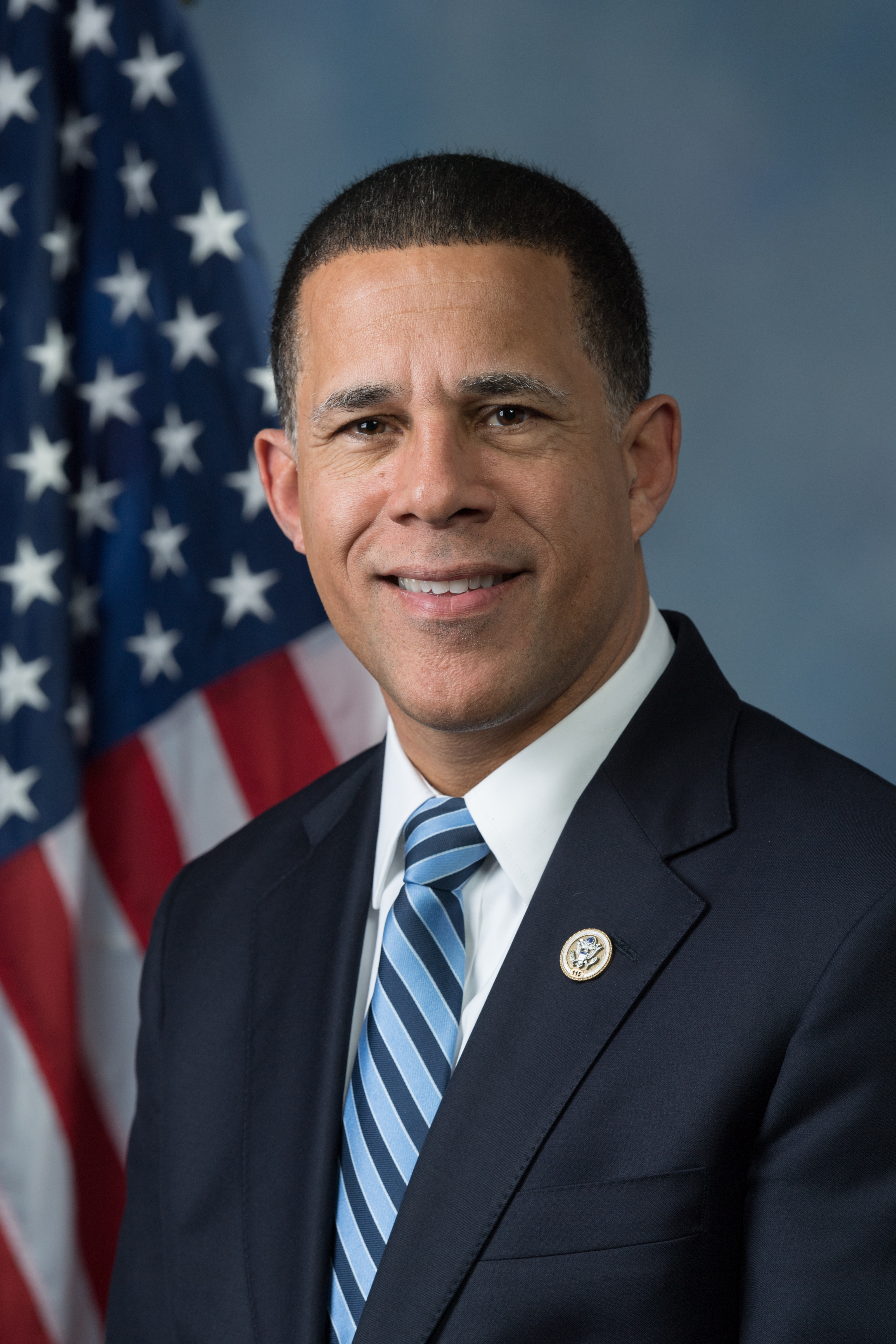 Anthony G. Brown's official photo